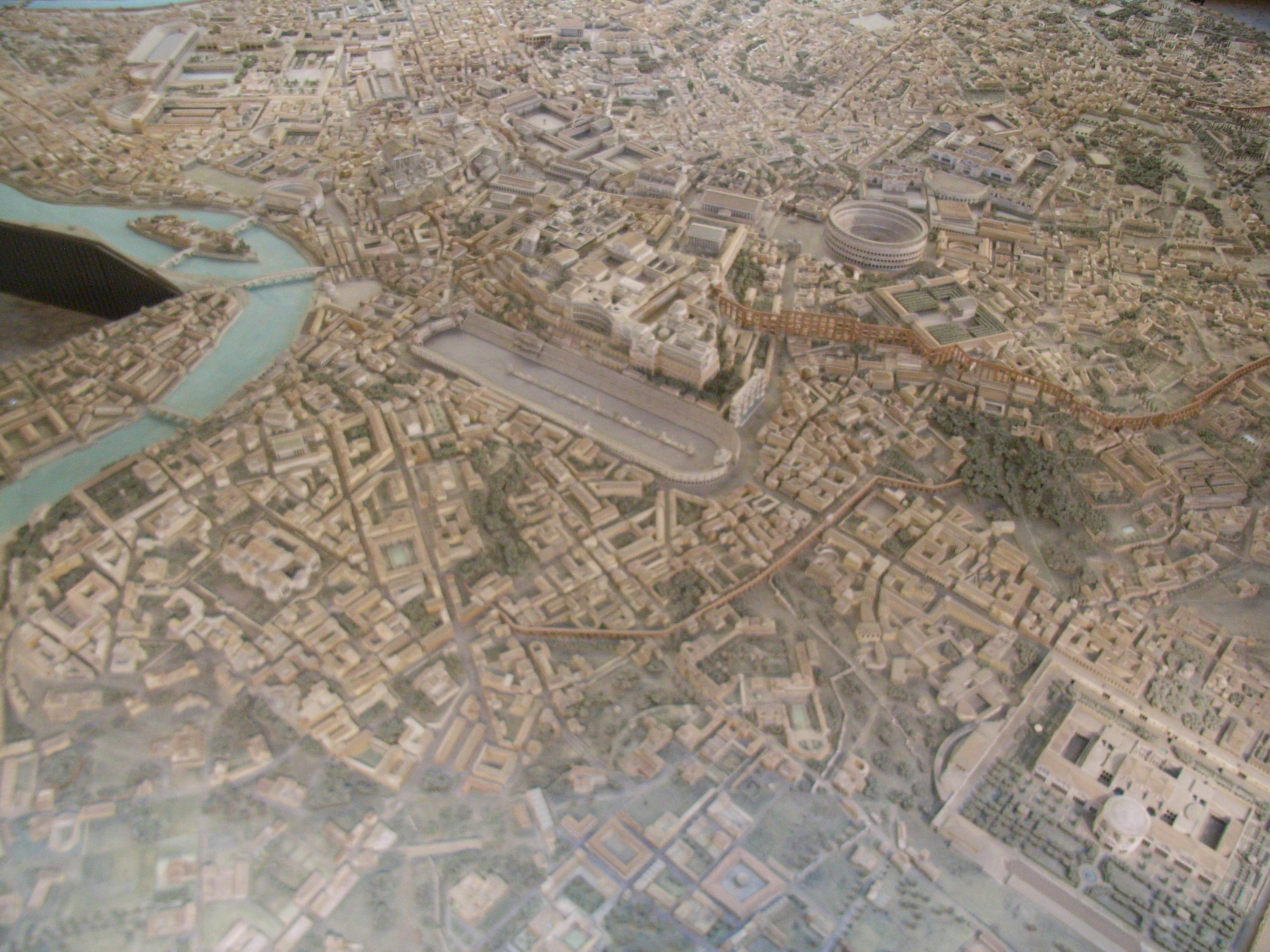 Rome model at Museo della civiltà romana (Rome)